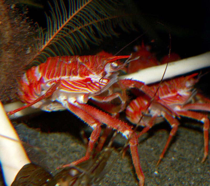 Photo of Munida quadrispina at the Vancouver Aquarium.